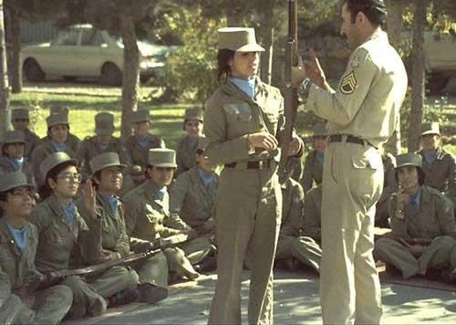 Girl soldiers in Iran